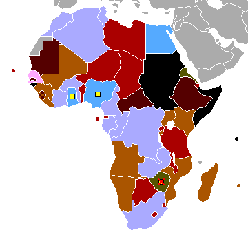 Status of countries with respect to 2010 Africa Cup of Nations: Qualified automatically Qualified via group stage Qualified via playoff Eliminated in playoff Eliminated in group stage Eliminated in preliminary round Withdrew Did not enter Not an associate member of CAF